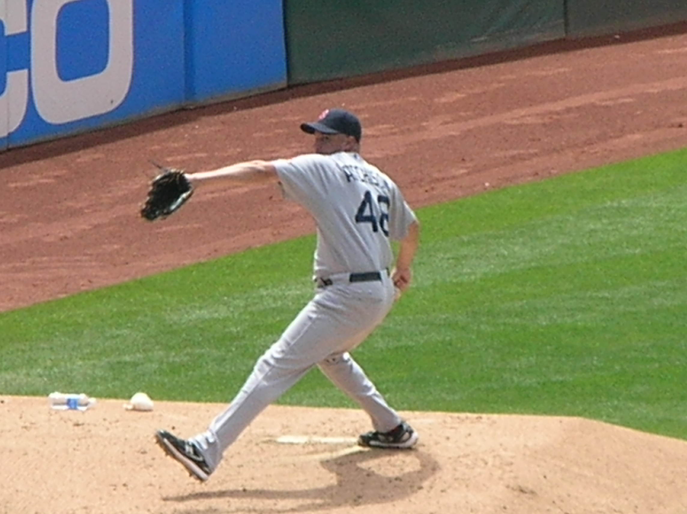 Boston Red Sox pitcher Scott Atchison in the bullpen during an away game against the Oakland A's. The A's won 6-4.